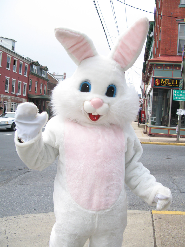 I was driving through Hamburg when I seen this Easter Bunny standing at the corner of 4th and State Streets. I stopped and got out to take some photos and this nice lady gave me a Reese's Peanut Butter Egg. Happy Easter Everyone.